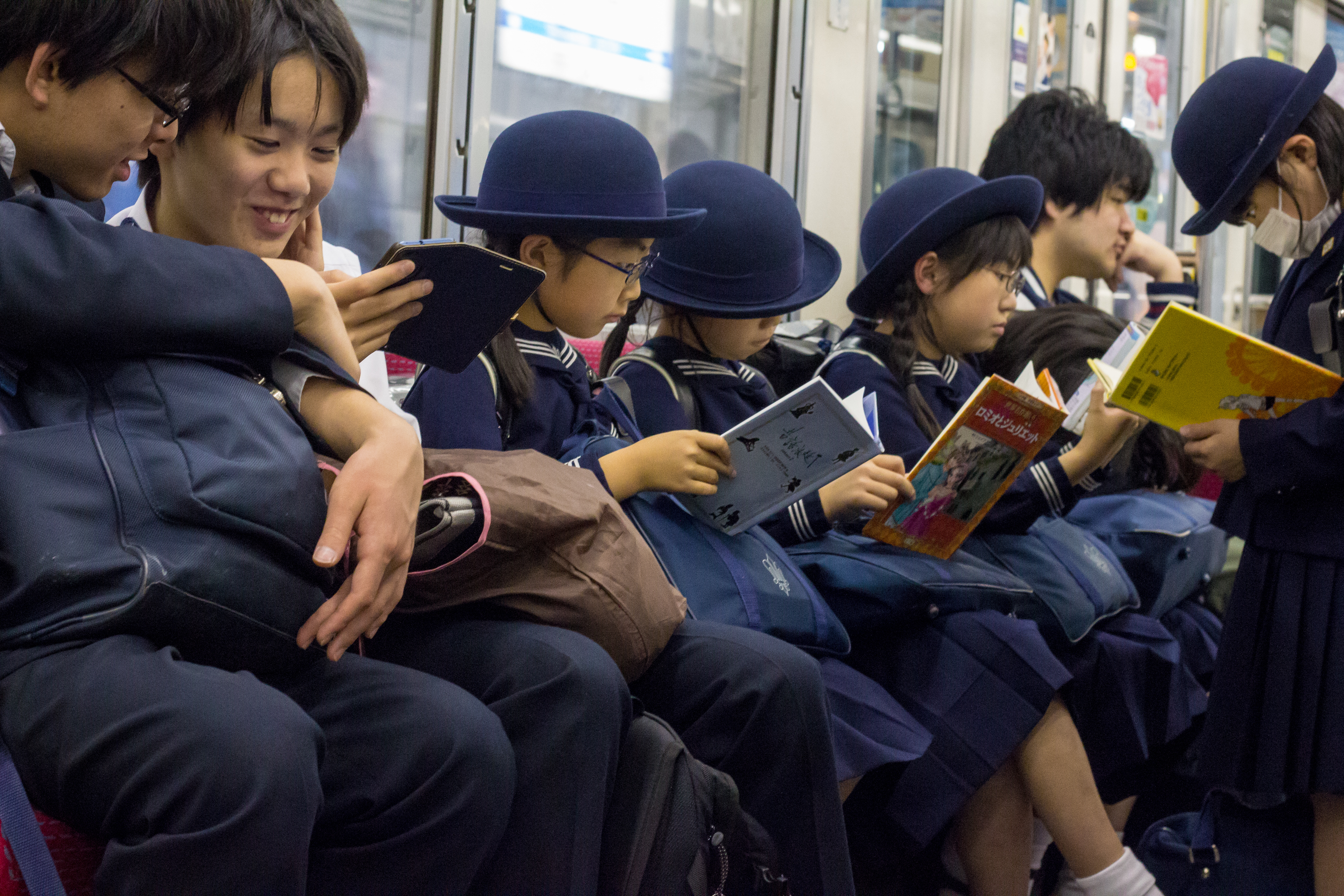 Schoolchildren reading on the way to their home, Tokyo.